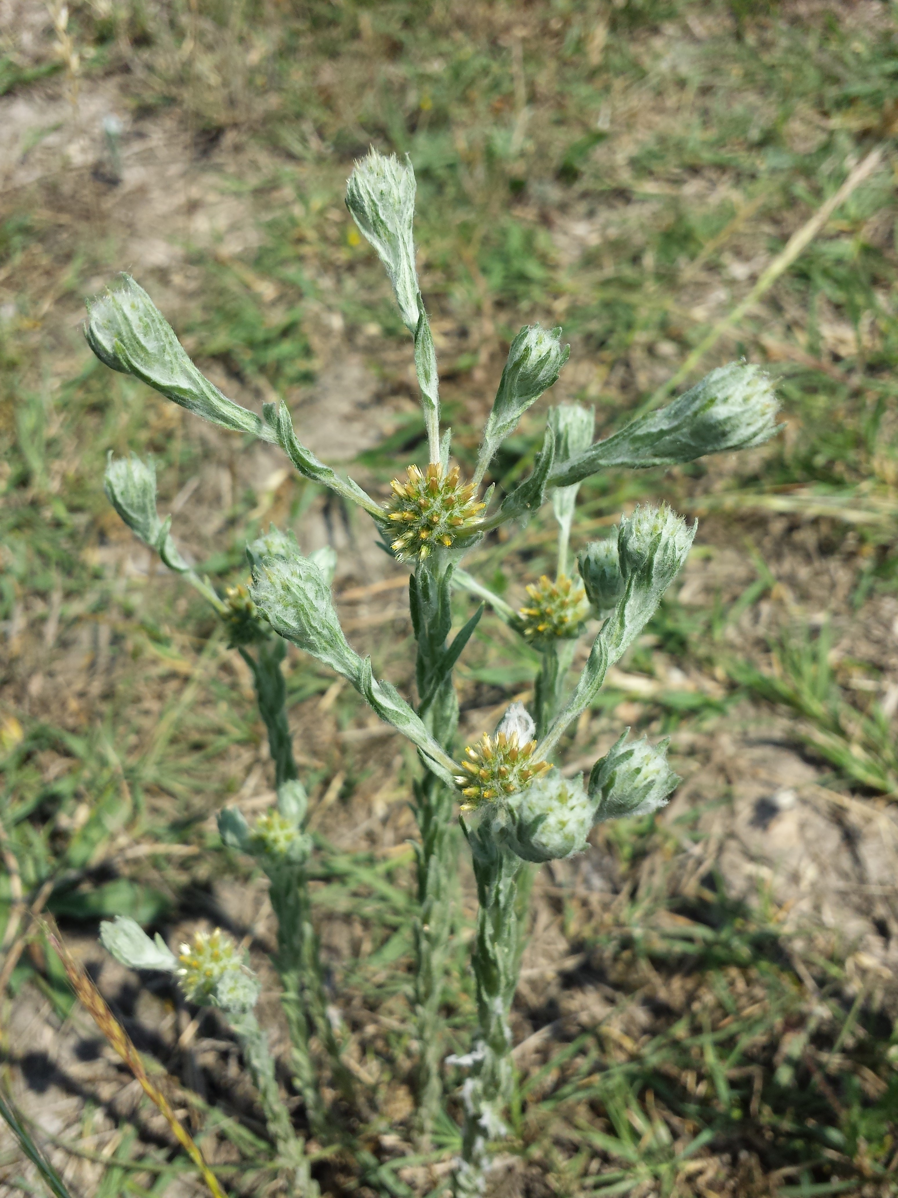 Habitus Taxonym: Filago vulgaris ss Fischer et al. EfÖLS 2008 ISBN 978-3-85474-187-9; det. Gergely Király 2015-06-07 Location: Veszprém County, Hungary - ca. 200 m a.s.l. Habitat: sandy ruderal place